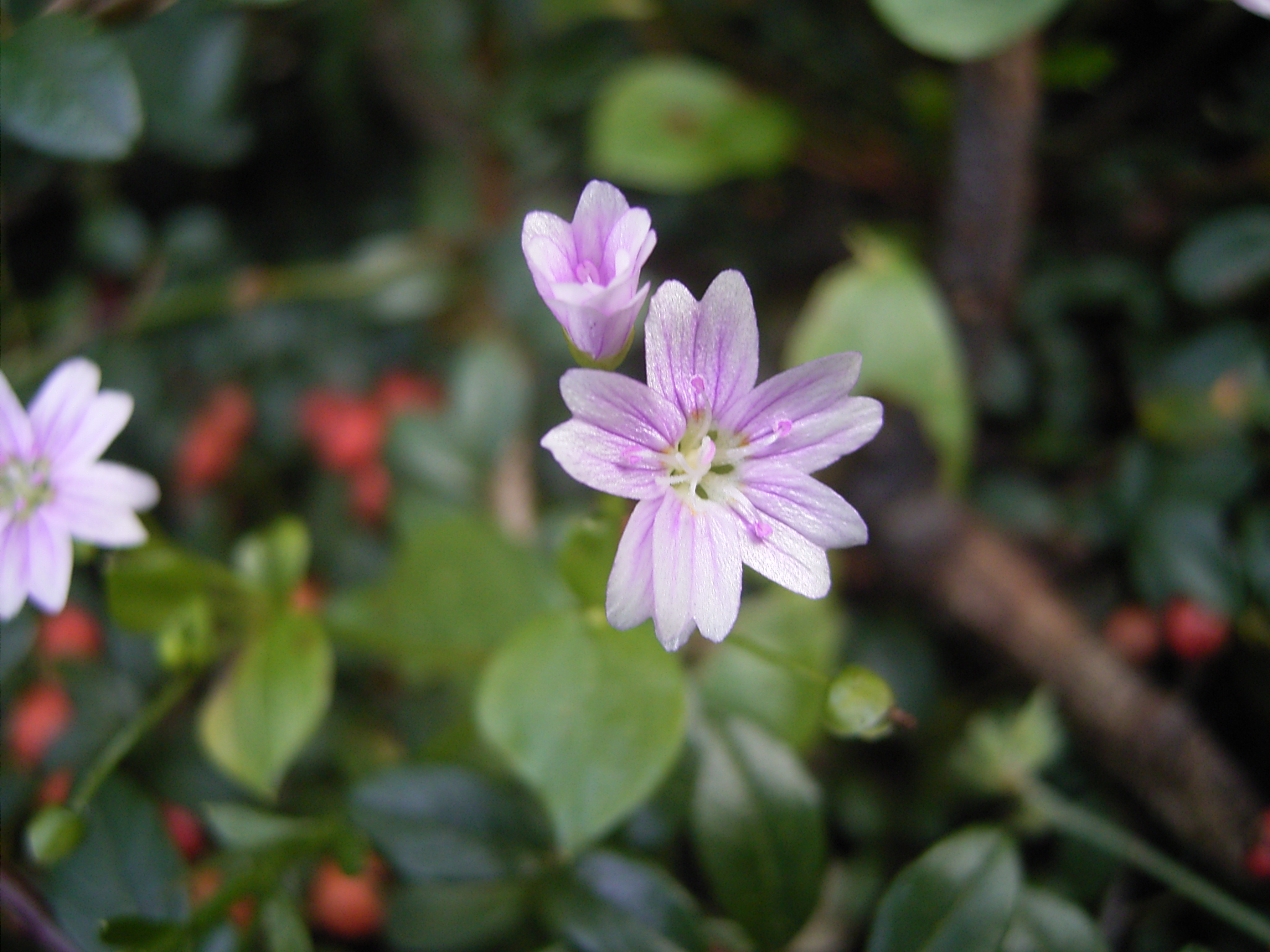 Deze foto toont de Roze winterpostelein. Ik nam de foto in een wegberm in Den Haag. This photo shows Claytonia siberica. I took the photo along a roadside in The Hague.